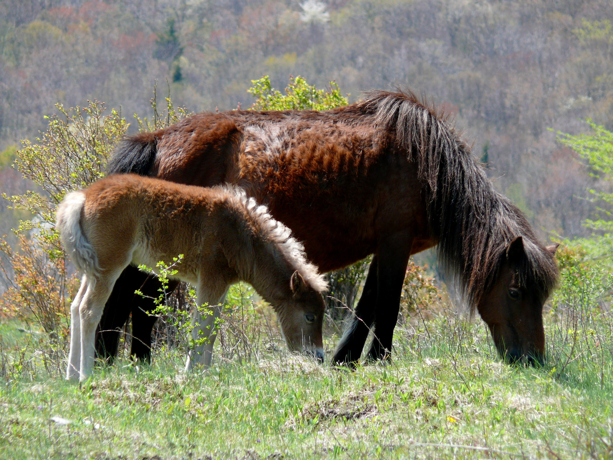 A mare and her foal feed in the grass. These are members of an introduced herd of wild ponies that has lived on the balds of Wilburn Ridge in Grayson Highlands State Park for over 50 years.Photo taken with a Panasonic Lumix DMC-FZ50 in Grayson County, VA, USA.Cropping and post-processing performed with The GIMP.